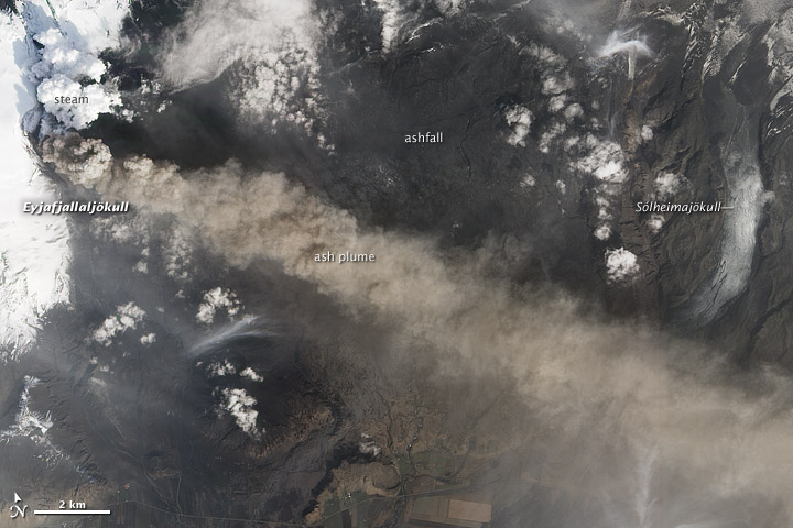 Eyjafjallajokull